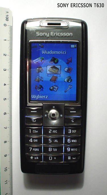 mobile phone - Sony Ericsson T630